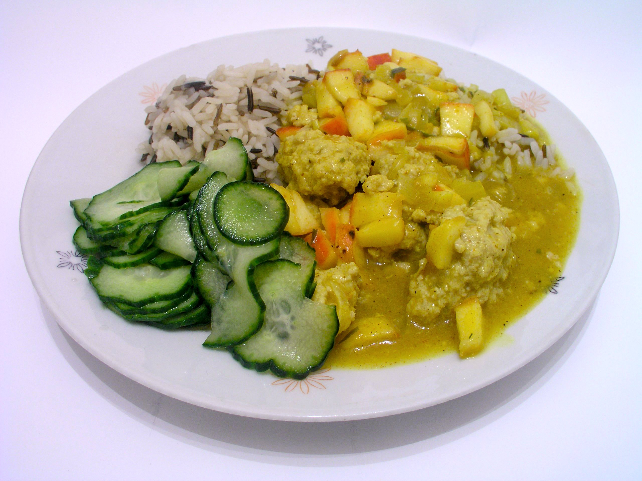 Boller i karry a traditional danish meal, literally meaning (meat)balls in curry(sauce)